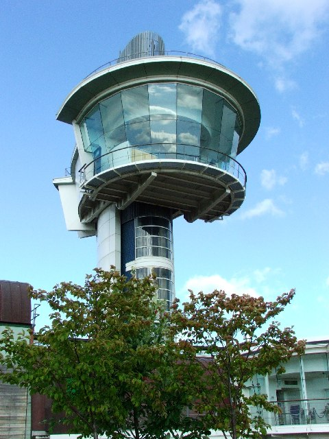 Observation tower overlooking Segedunum Roman Fort and Baths, Wallsend, Tyne and Wear, England